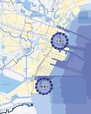 the document from Government of Tianjin City，P.R.China